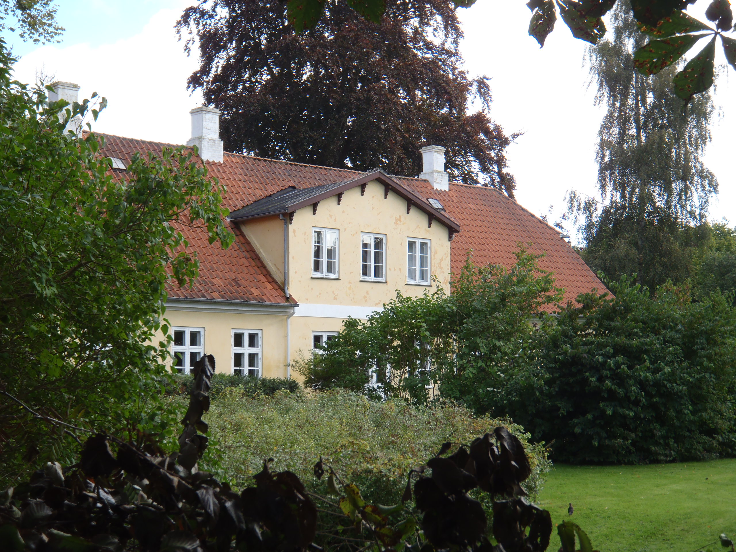 Lyngby Kirkestræde 12, bygning 1, Lyngby-TaarbækUnknown